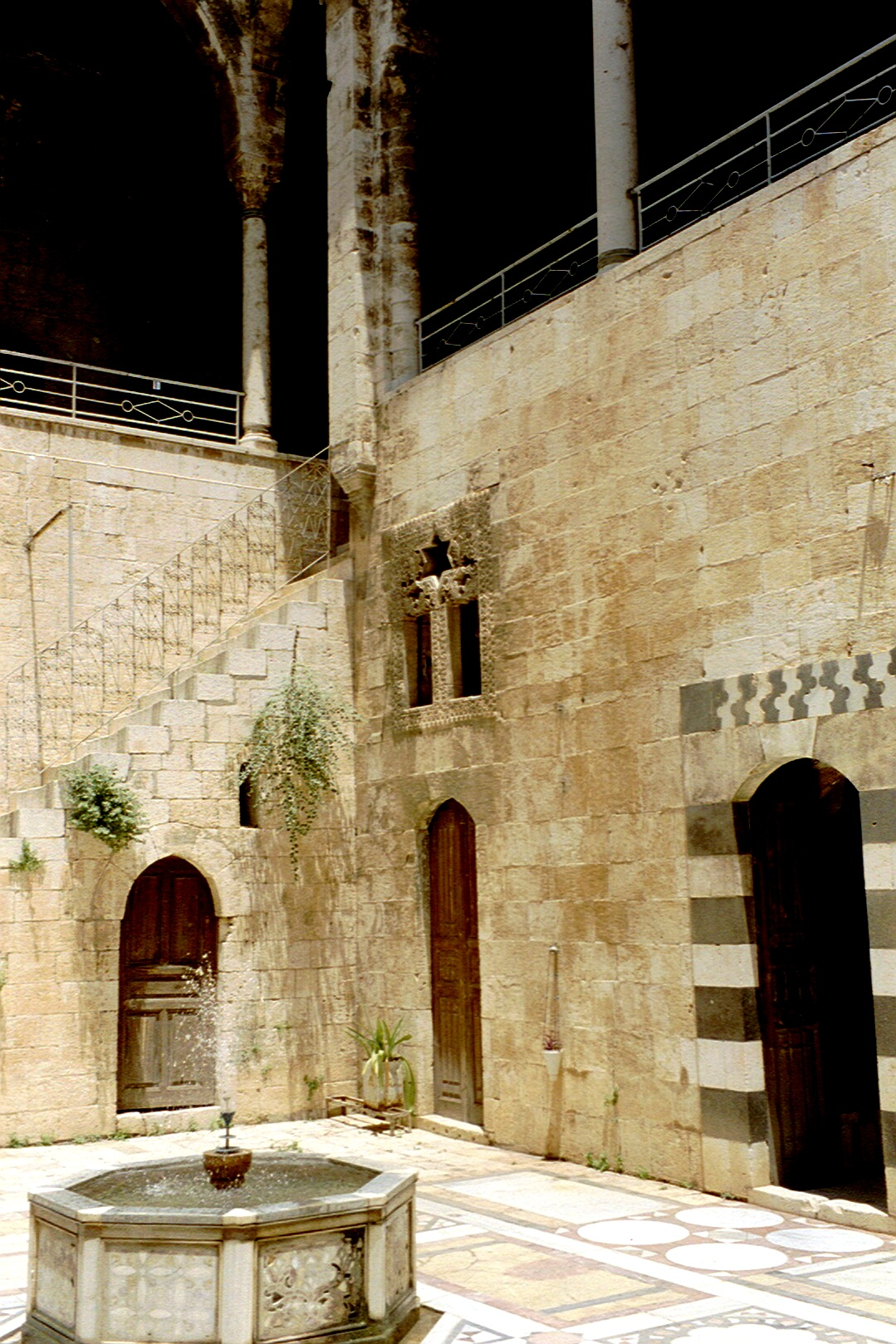 Part of the Al Azam Palace, in Hama, Syria. Picture taken by me in June, 2001, with an automatic Olympus mju:zoom140 camera.